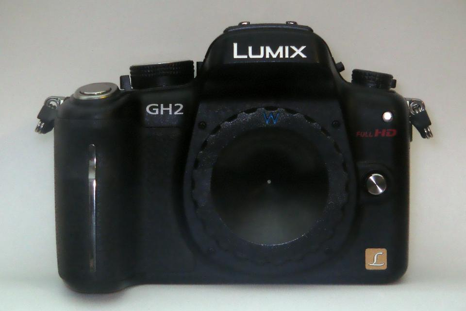 Panasonic Lumix DMC-GH2 with pinhole adapter.